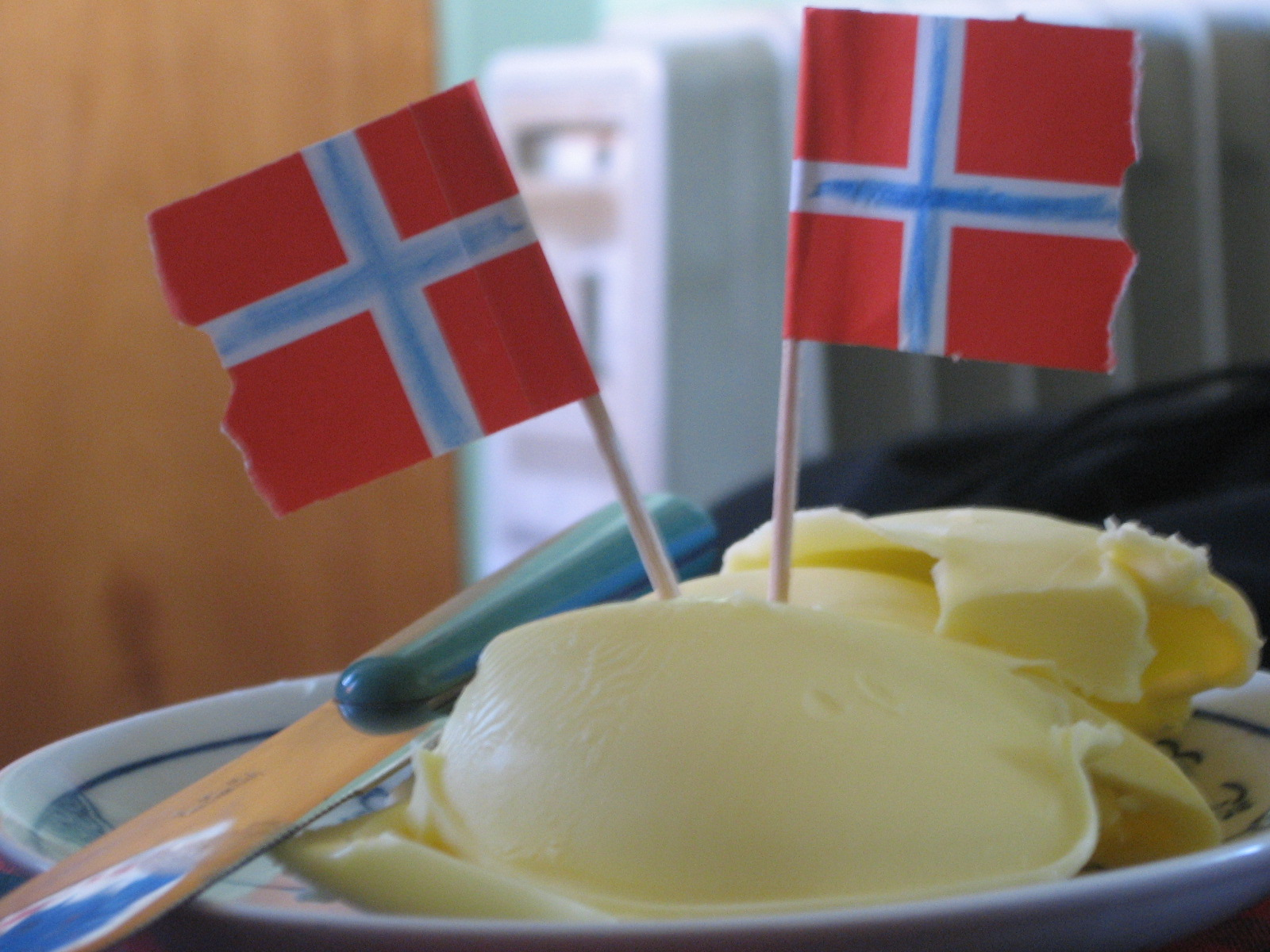 Norwegian butter served on Constitution Day (17 May)